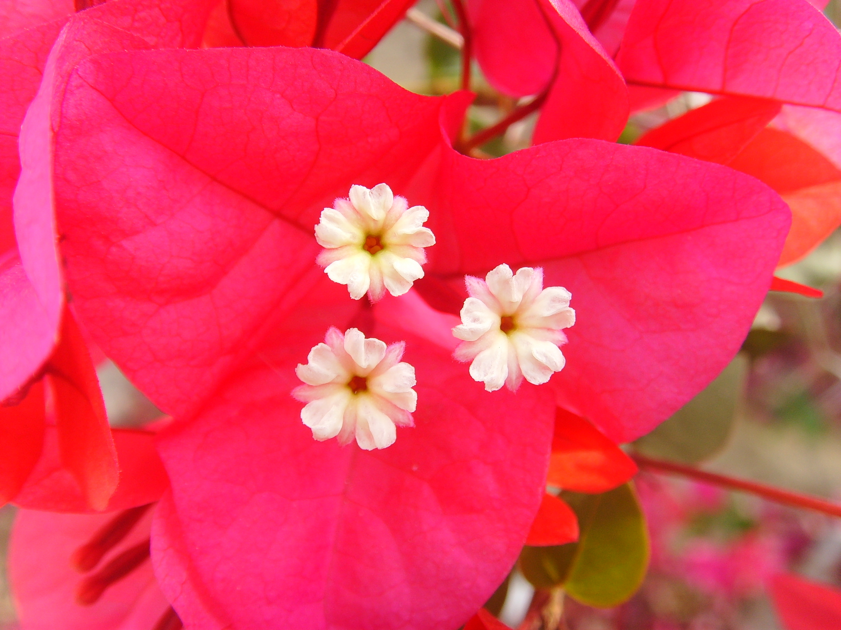 A kind of Bougainville a trees with flower-like spring leaves near its flowers in Qeshm Island.